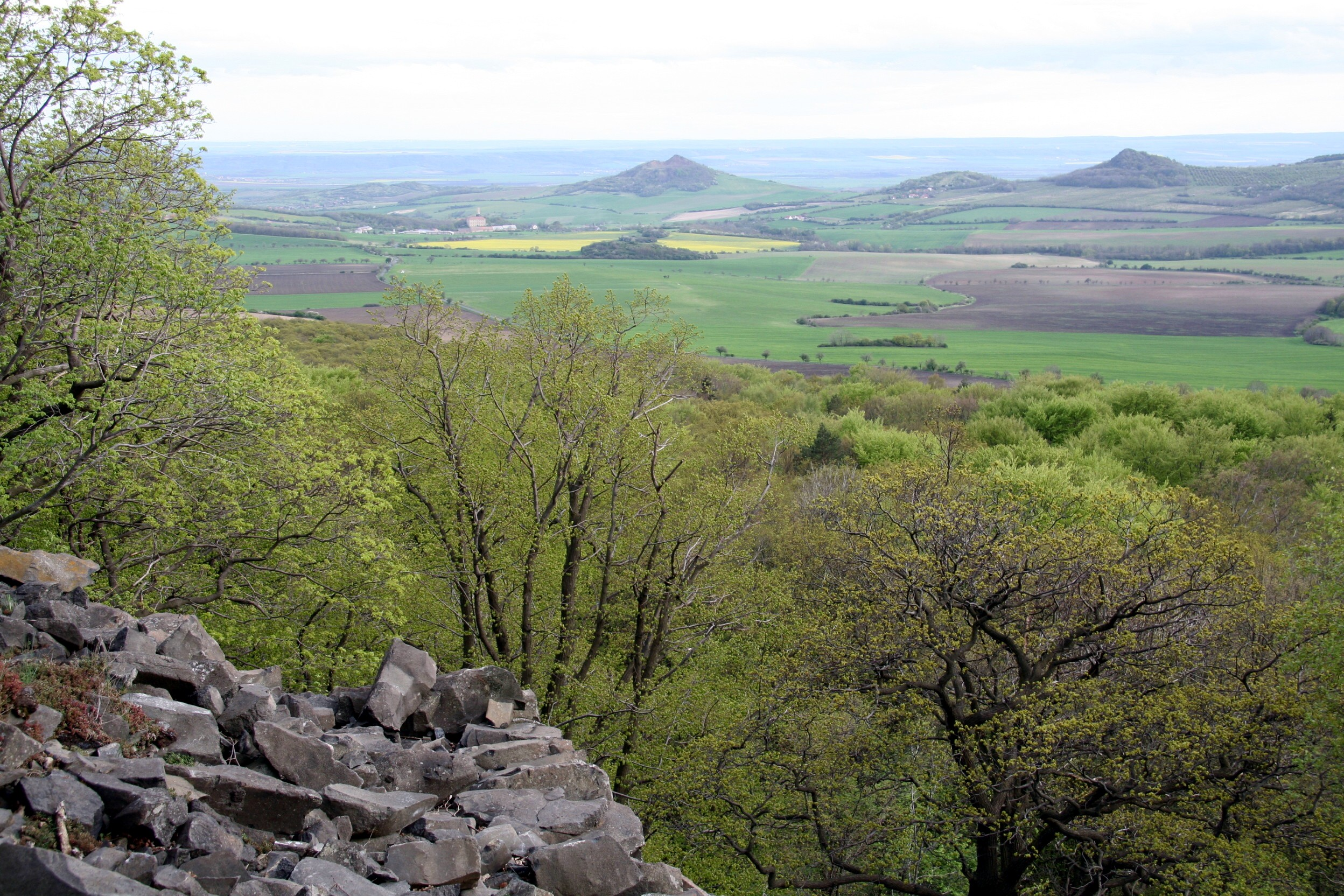 A view from the hill of Ostrý (553 m) in the České středohoří towards south. In the left village of Vlastislav with Skalka Castle building visible, in the centre hill of Vršetín damaged with a quarry, in the right hill of Plešivec.